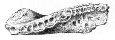 Holotype lower jaw of Sarcolestes leedsi